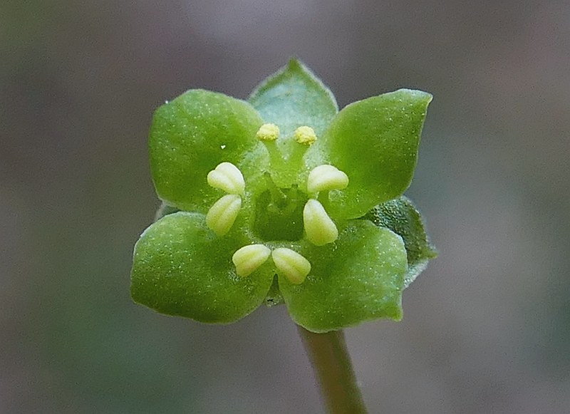 Adoxa moschatellina (Adoxaceae) (Moschatel) - (flowering), Slenaken - Gulpdal - Bronbossen, the Netherlands